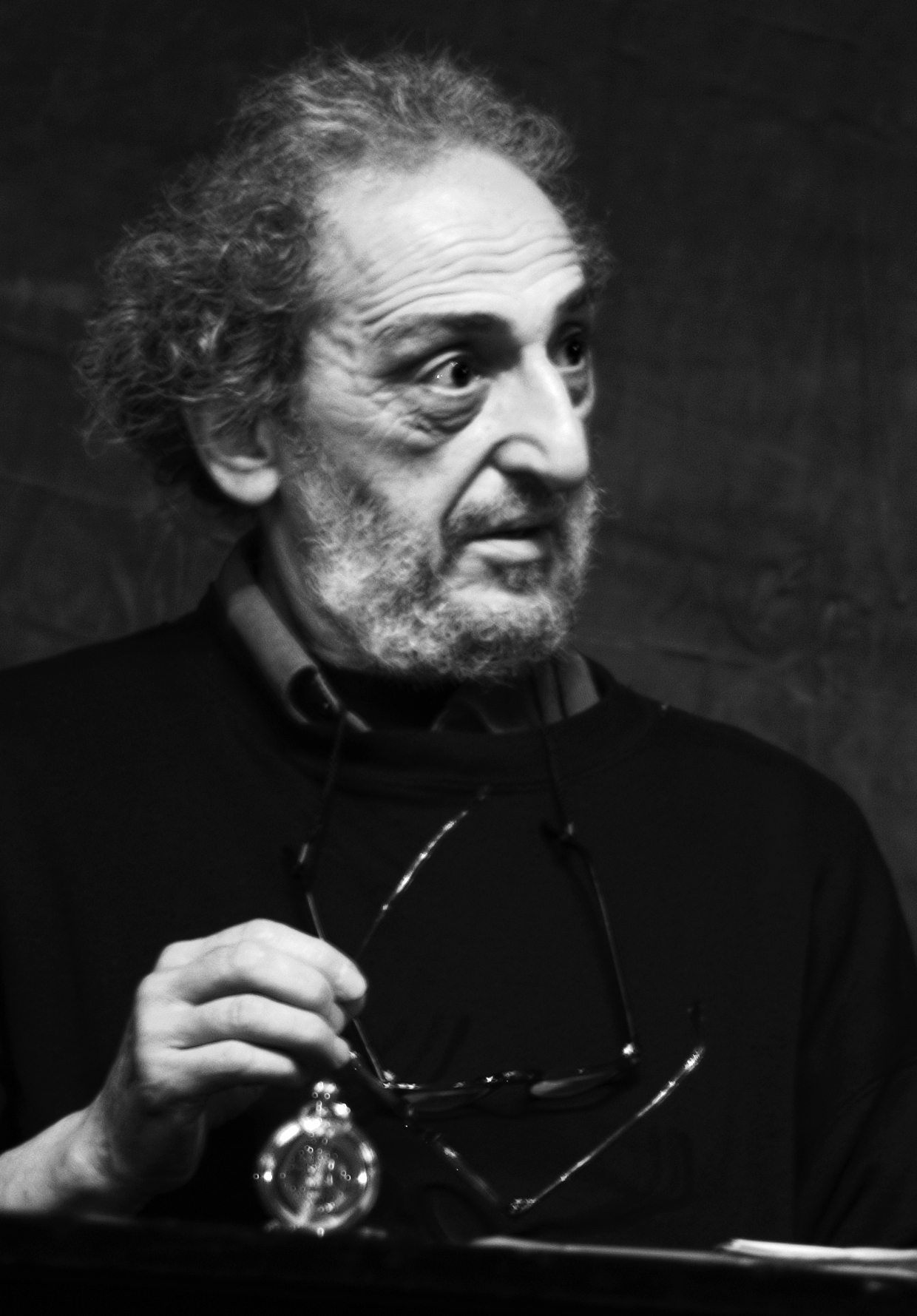 Misha Bolourie Portrait